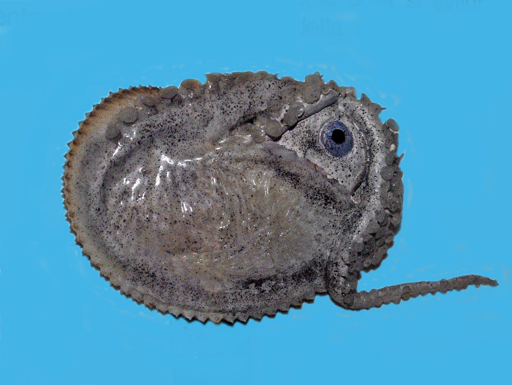 Argonauta argo inside its shell, on display at the Museo Civico di Storia Naturale di Milano